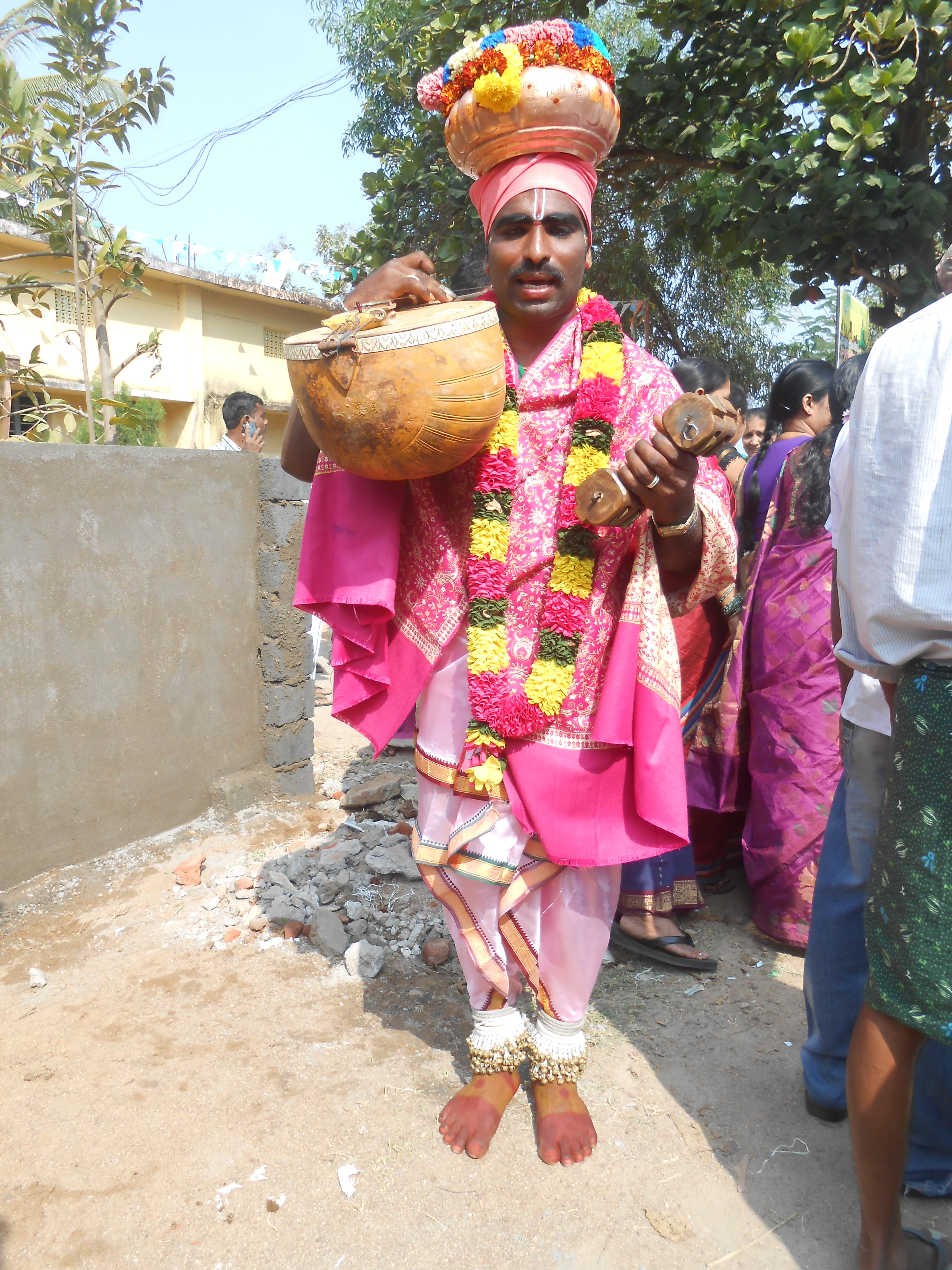 Haridasu